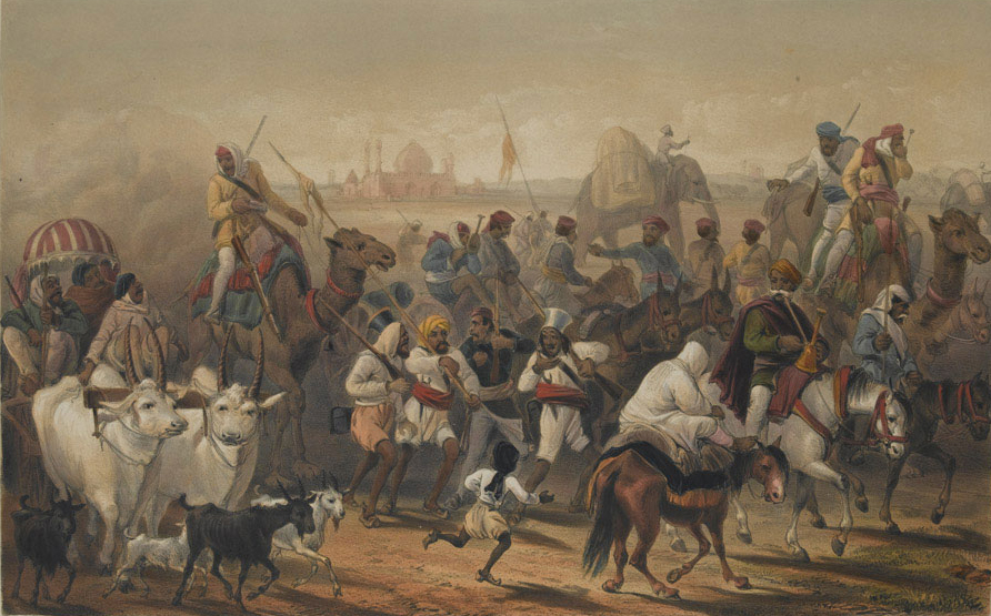 Troops of the Native Allies', 1857-1858 (c). Coloured lithograph from 'The Campaign in India 1857-58', a series of 26 coloured lithographs by William Simpson, E Walker and others, after G F Atkinson, published by Day and Son, 1857-1858. Although the Bengal Army rebelled during the Indian Mutiny (1857-1859), the East India Company's Madras and Bombay Armies were relatively unaffected and other regiments, including Sikhs, Punjabi Moslems and Gurkhas, remained loyal, partly due to their fear of a return to Mughal rule. They also had little in common with the Hindu sepoys of the Bengal Army. All three groups helped capture Delhi and took part in its subsequent looting. They were helped by the soldiers of those native states that opted to support the British. NAM Accession Number NAM. 1971-02-33-495-20 Copyright/Ownership National Army Museum Copyright Location National Army Museum, Study Collection